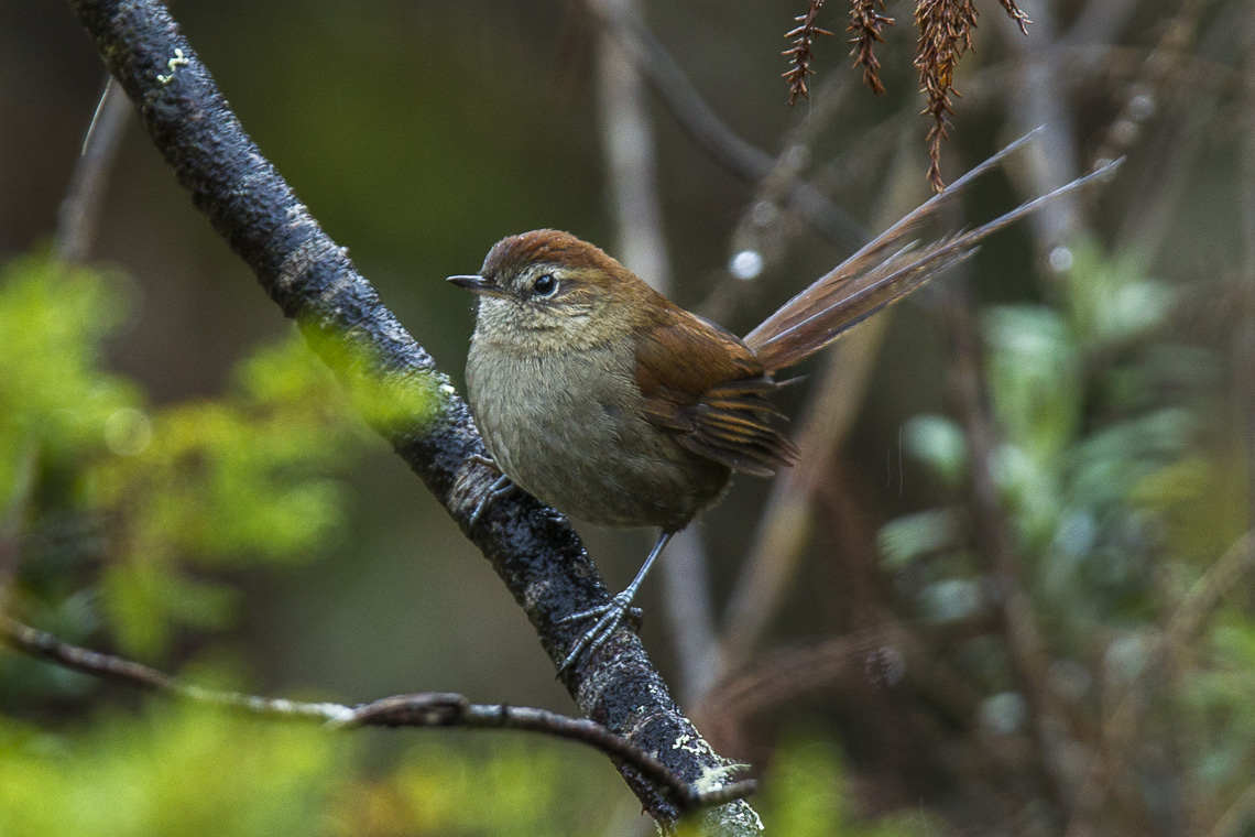 White-chinned Thistletail (Asthenes fuliginosa) - Ecuador_S4E4517